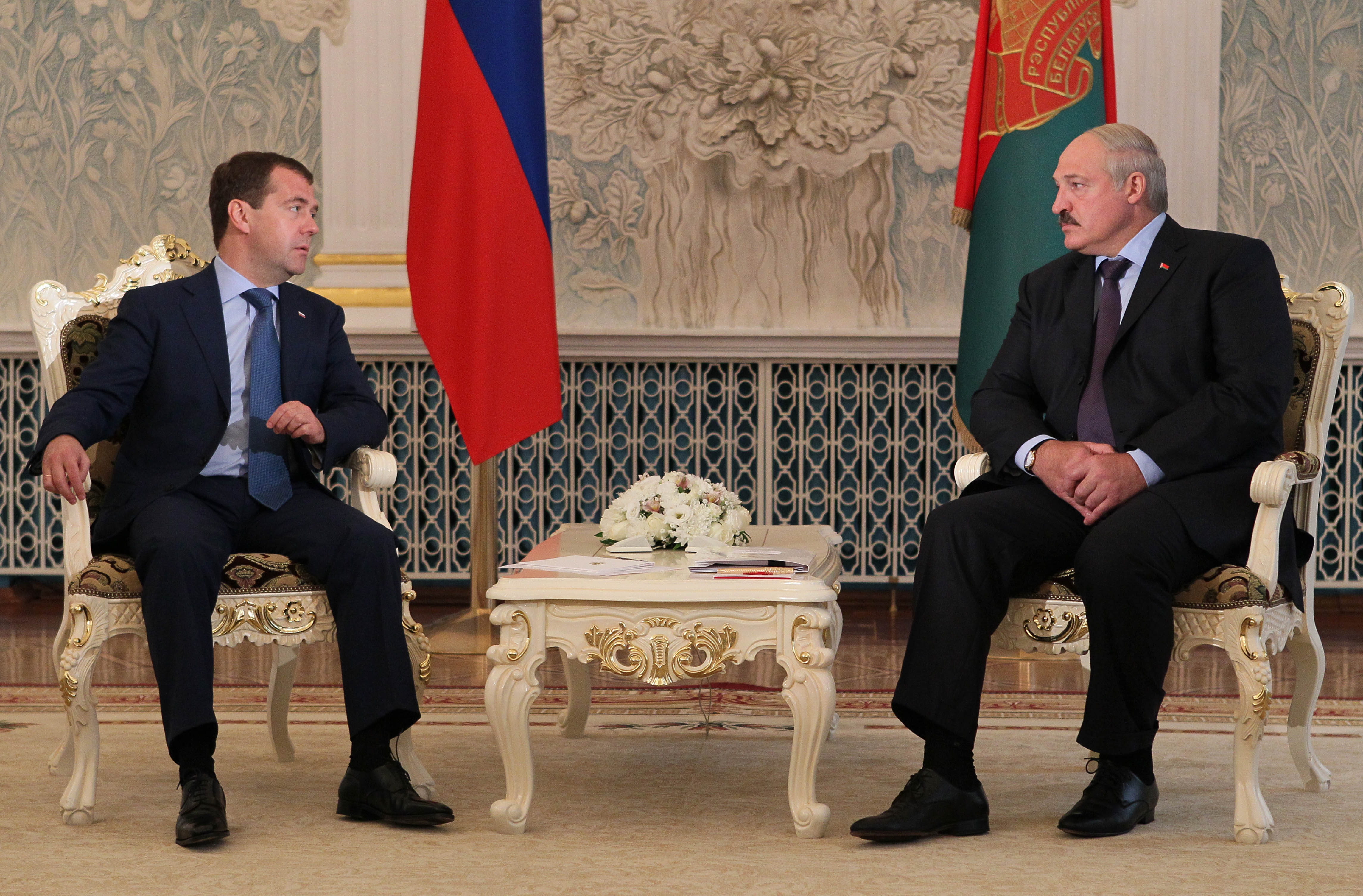 Russian Prime Minister Dmitry Medvedev and Belarusian President Alexander Lukashenko during a working meeting in Minsk.